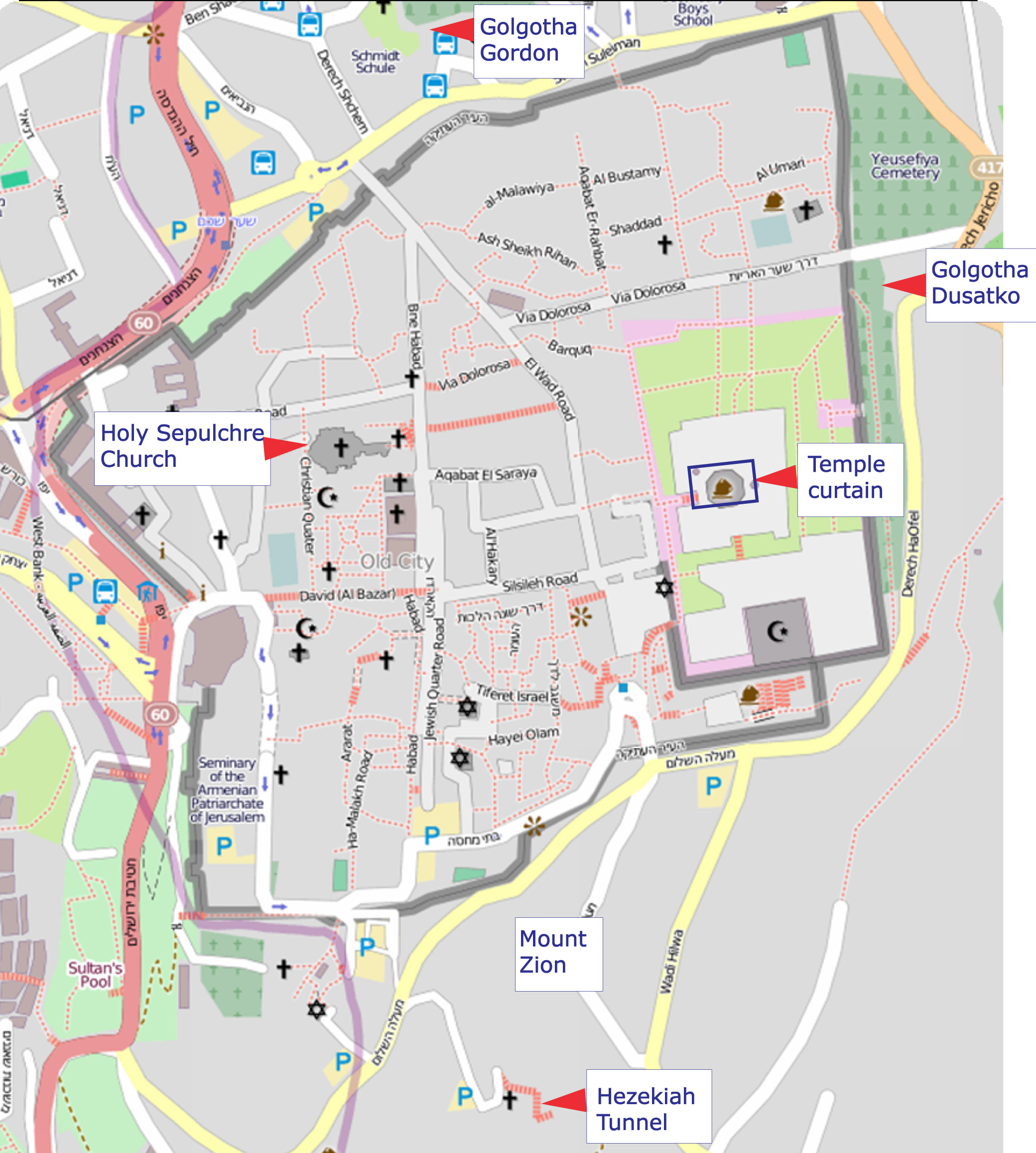 Alternate locations of Golgotha. The ancient southern wall of Jerusalem extended as far south as Hezekiah's Tunnel.